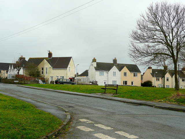 Housing at Boverton/Trebeferad Looking south-west from the junction with Mill Lane.